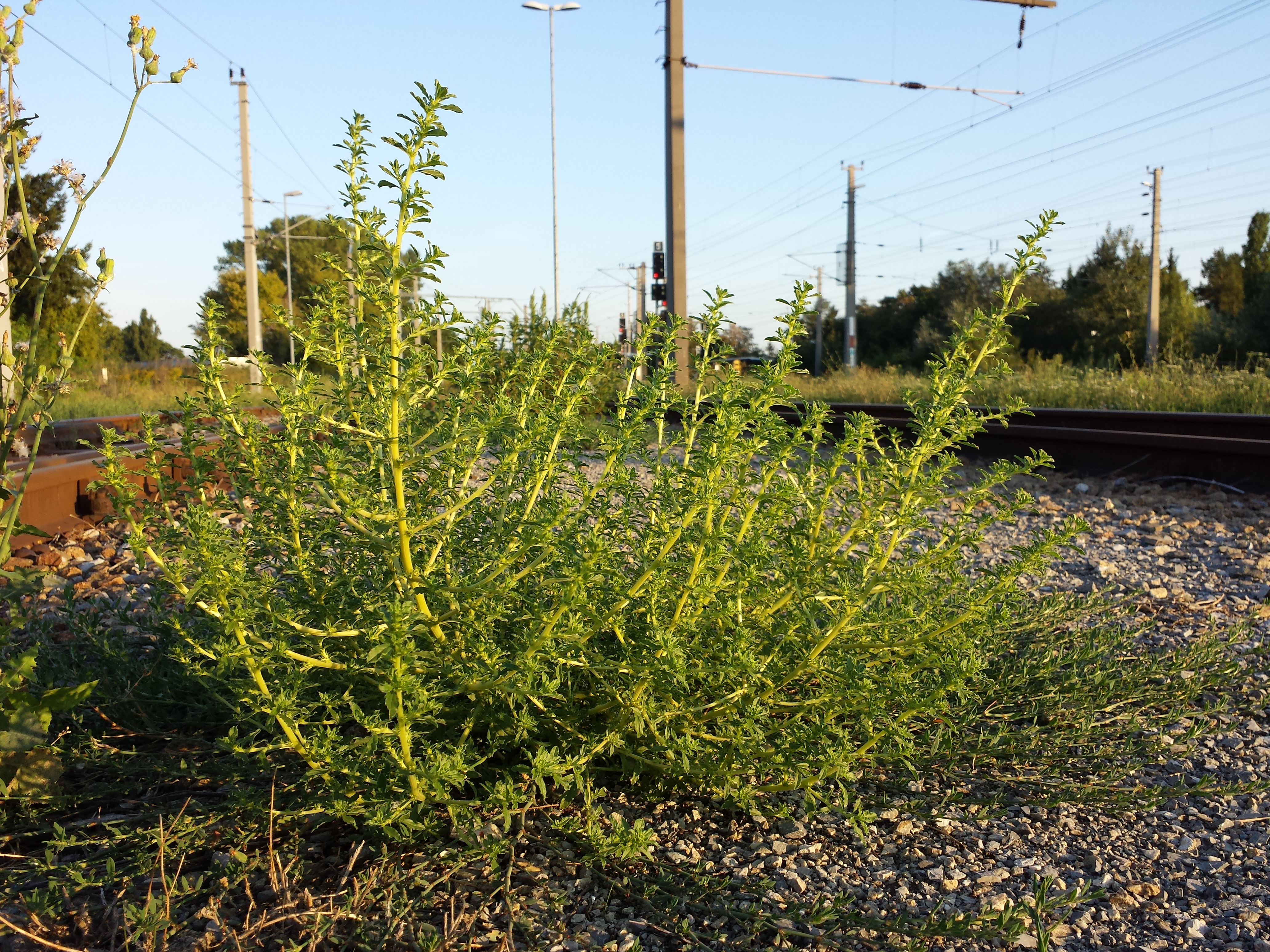 Habitus Taxonym: Amaranthus albus ss Fischer et al. EfÖLS 2008 ISBN 978-3-85474-187-9 Location: Jedlersdorf rail station, Vienna-Floridsdorf - ca. 160 m a.s.l. Habitat: rail area